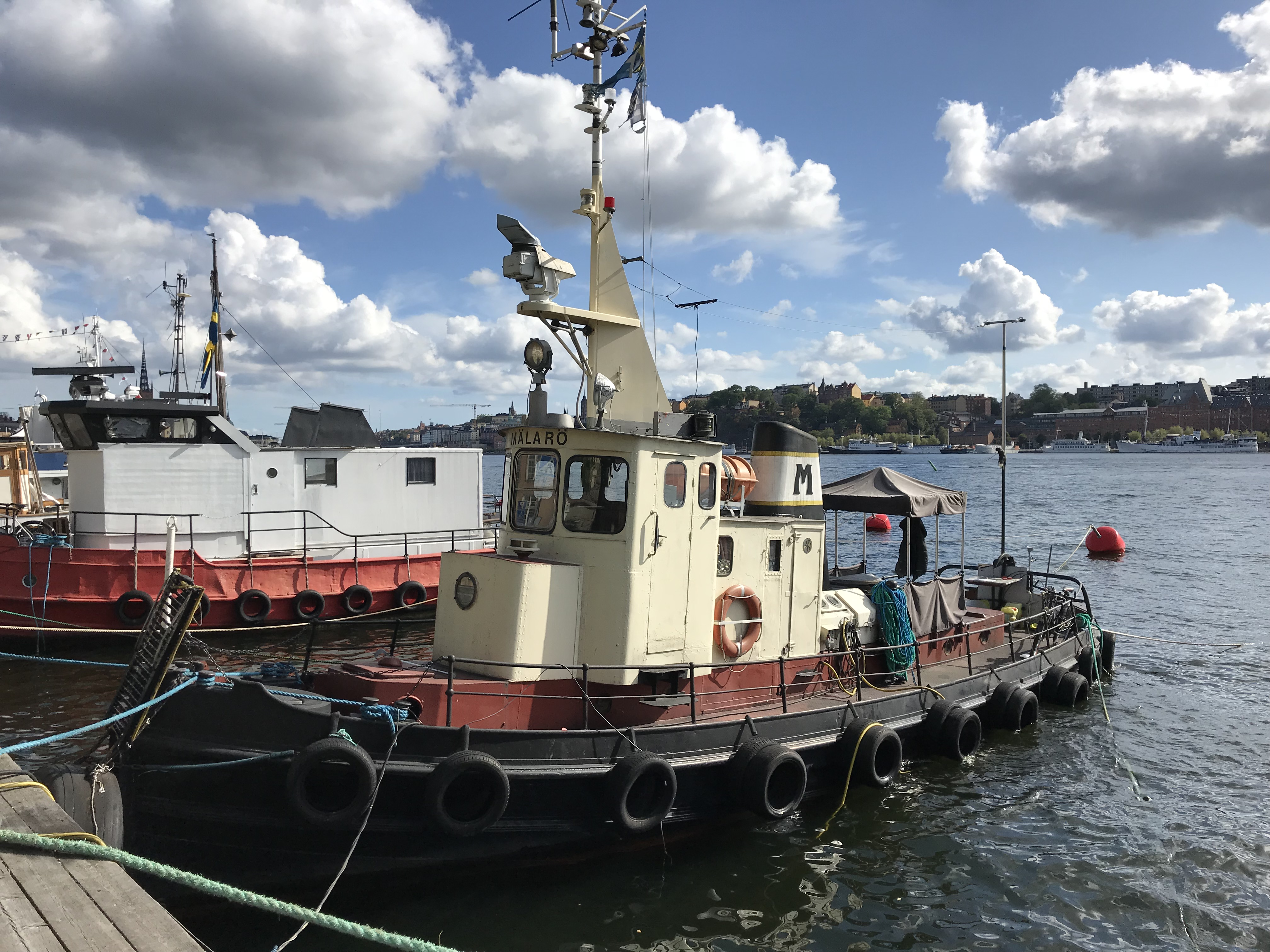 The Swedish tugboat Mälarö built in Lilla Edet Municipality in Västra Götaland County in 1922, moored at Norr Mälarstrand, Stockholm, in September 2018.